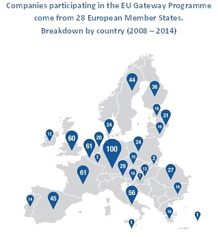 An image representing number of participants in the EU gateway Programme (20078 - 2014)from all the 28 EU countries.